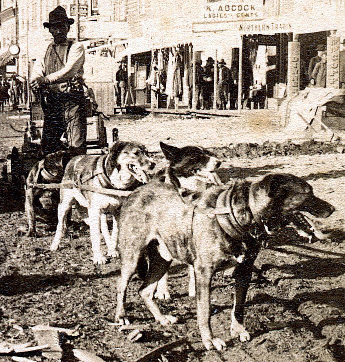 Transport dogs in Dawson, Klondike, c.1900